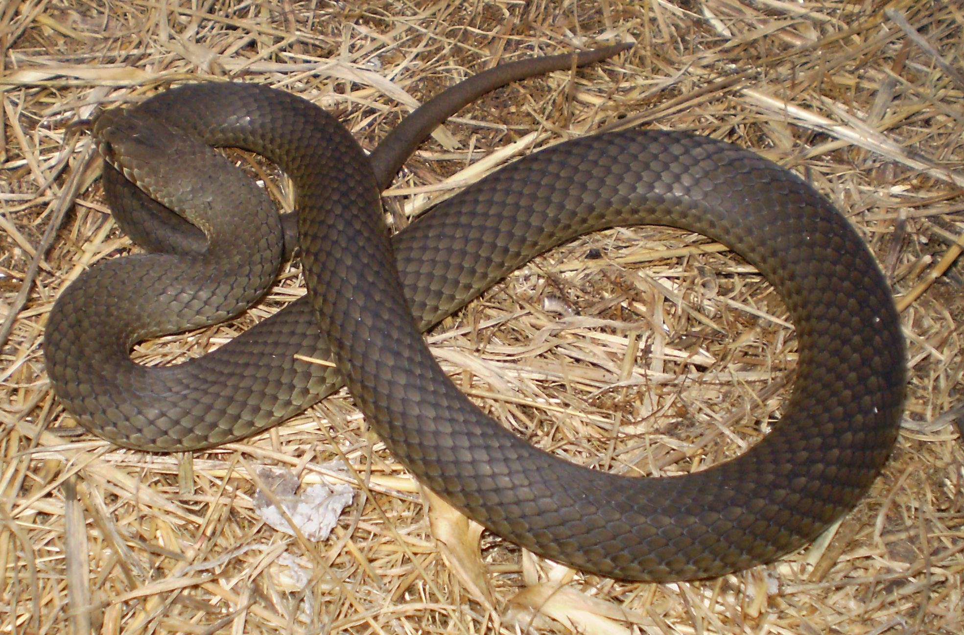 Austrelaps labialis (pygmy copperhead) native to South Australia (state) particularly Kangaroo Island. Photo John Langsford